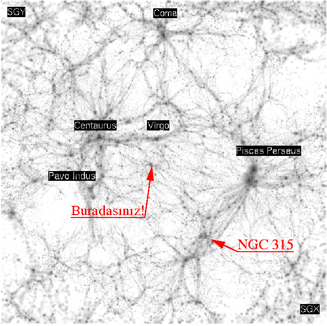 The present day dark matter distribution in a slice cut through a simulation of a flat universe with cosmological constant. The slice has a side length of 520 million light years, and a thickness of 100 million light years. It contains the so-called "supergalactic plane". The major nearby clusters, like Coma, Virgo, Perseus, are labelled.